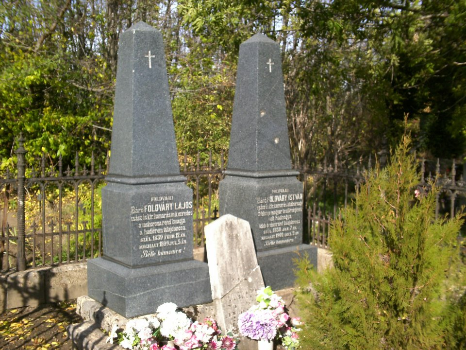 The tomb of István, Lajos and Pula Földvári in Zichyújfalu